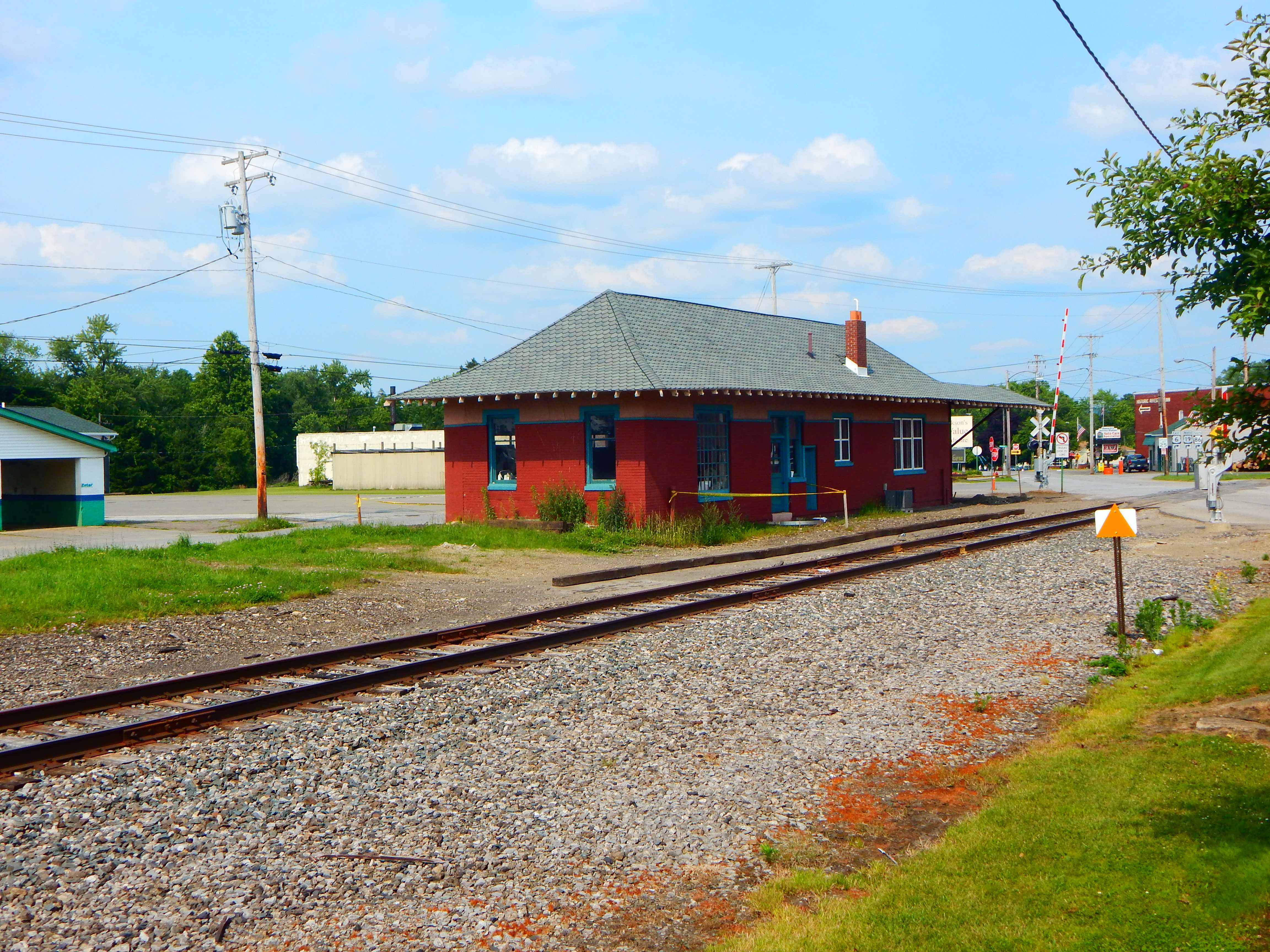 Cambridge Springs station for the Northwest Pennsylvania Railway in Cambridge Springs, Pennsylvania.